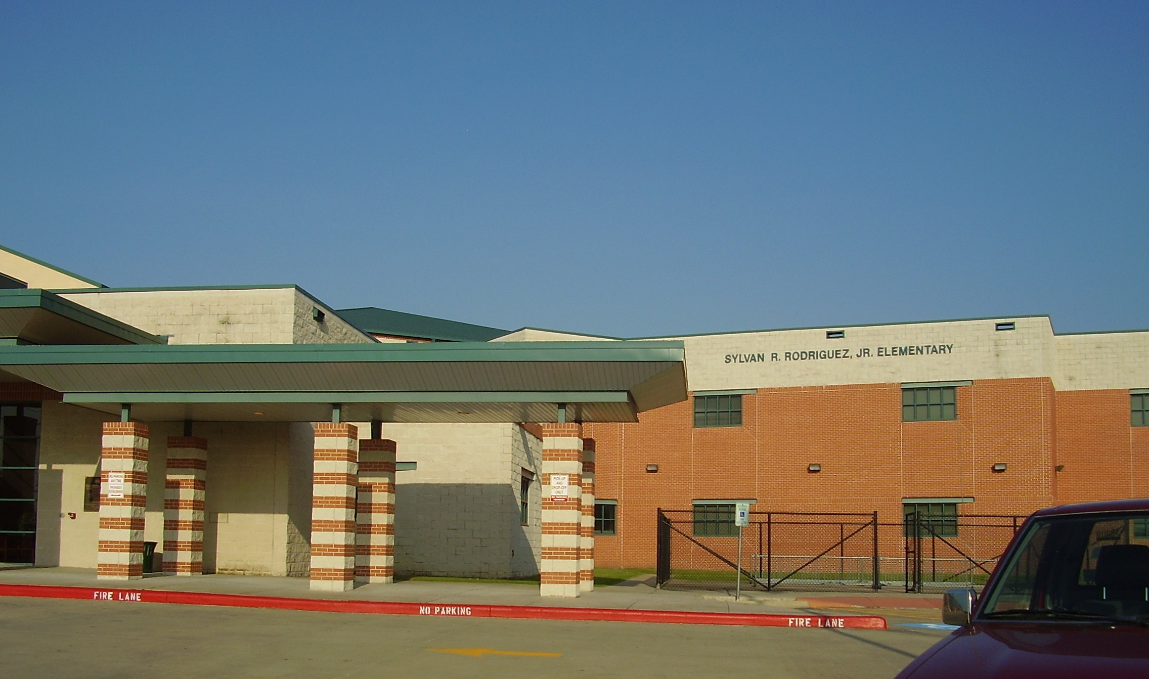 Sylvan R. Rodríguez, Jr. Elementary School